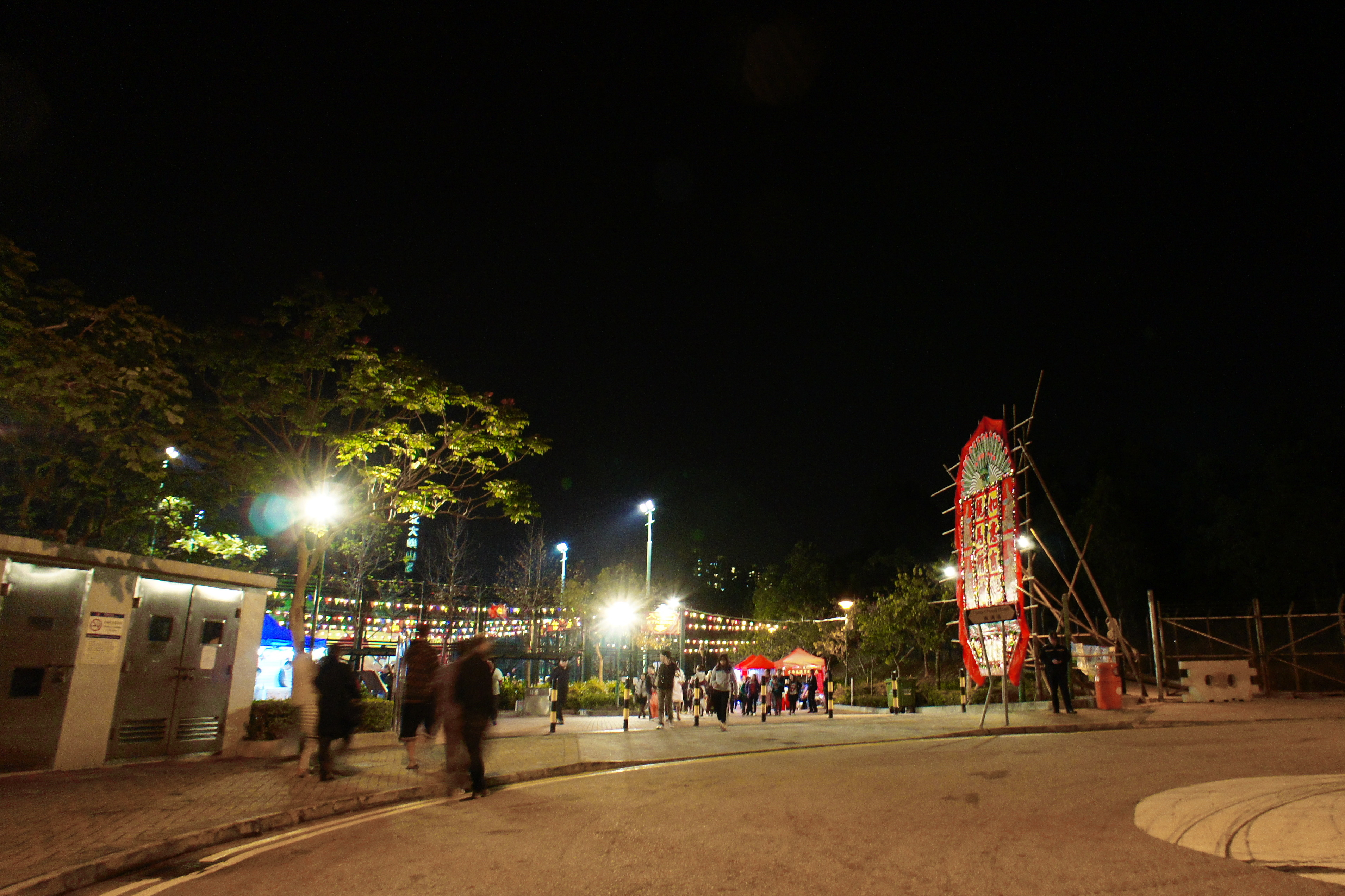 Lunar New Year Fair at Tung Chung Road Soccer Pitch (2014), Tung Chung, New Territories, Hong Kong.